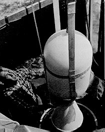 The third stage Grand Central 33KS2800 rocket engine, of the Vanguard rocket, being lowered onto the stack.